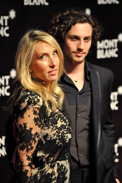 Director Sam Taylor-Wood and actor Aaron Johnson attend "To John - With Peace & Love" Global Launch Of The Montblanc John Lennon Edition on September 12, 2010 at Jazz at Lincoln Center in New York City. (Photo © Nick Stepowyj)